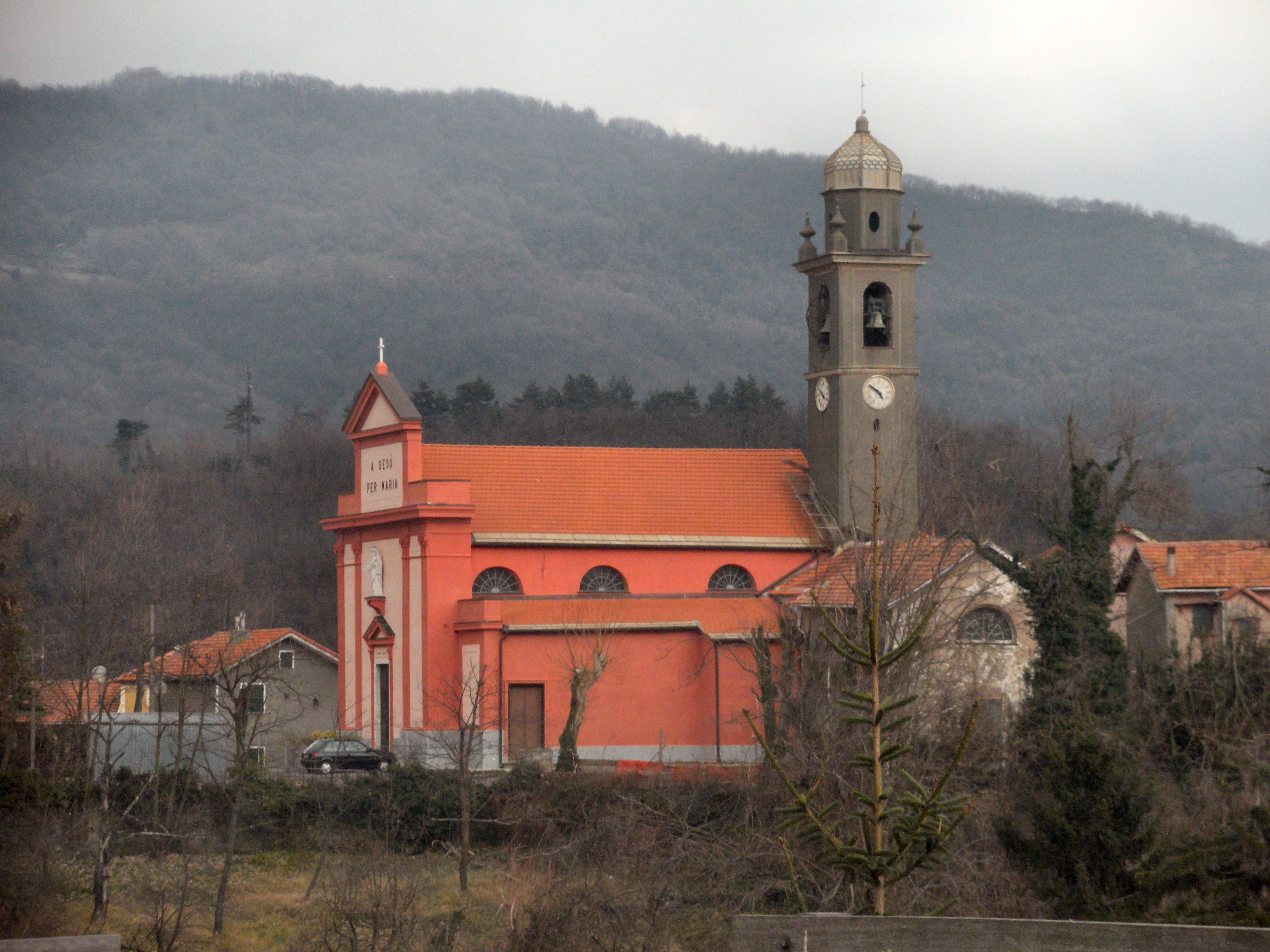 Mignanego, province of Genoa, Italy; the church of the village of Giovi